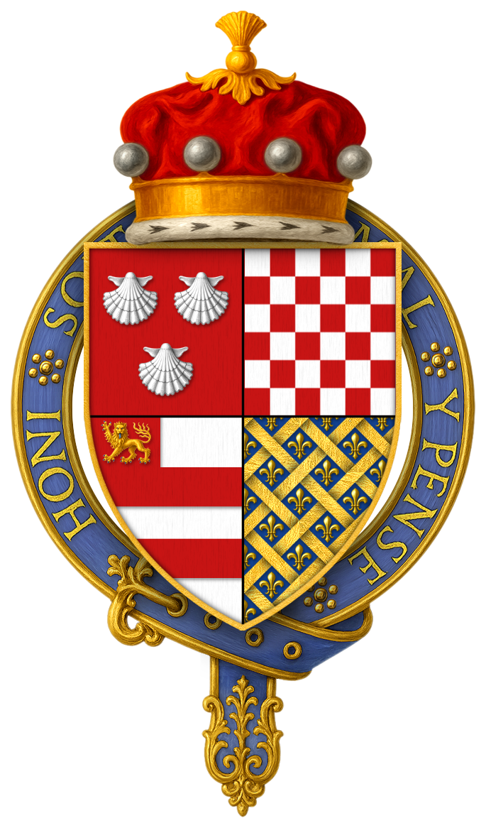 Coat of arms of Sir Thomas Dacre, 2nd Baron Dacre, KG Lord Dacre's stall plate remains installed at St. George's Chapel. The arms are: Quarterly, 1st: Gules three escallops argent (for Dacre); 2nd: chequy or and gules (for Vaux, of Gillesland); 3rd: Argent two bars gules, on a canton of the last, a lion passant guardant or (for Lancaster, Barons of Kendal); 4th: Azure, semée-de-lis and fretty or (for Morvill).